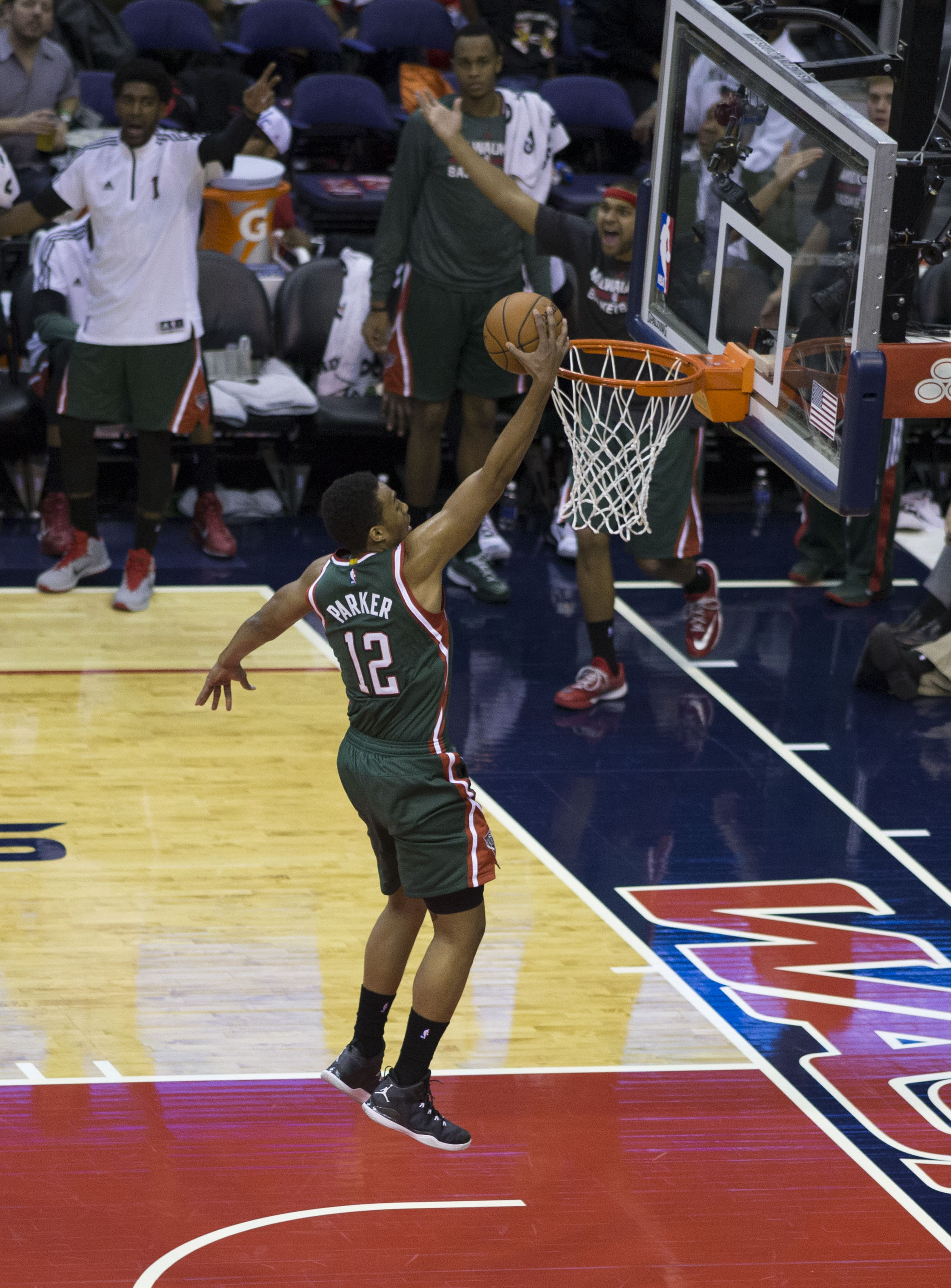 Jabari Parker playing for Milwaukee Bucks. Bucks at Wizards 11/01/14